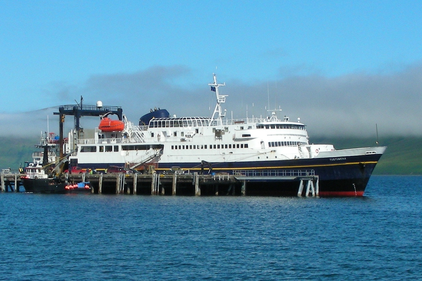 The AMHS ferry MV Tustumena at the dock in False Pass, Alaska.